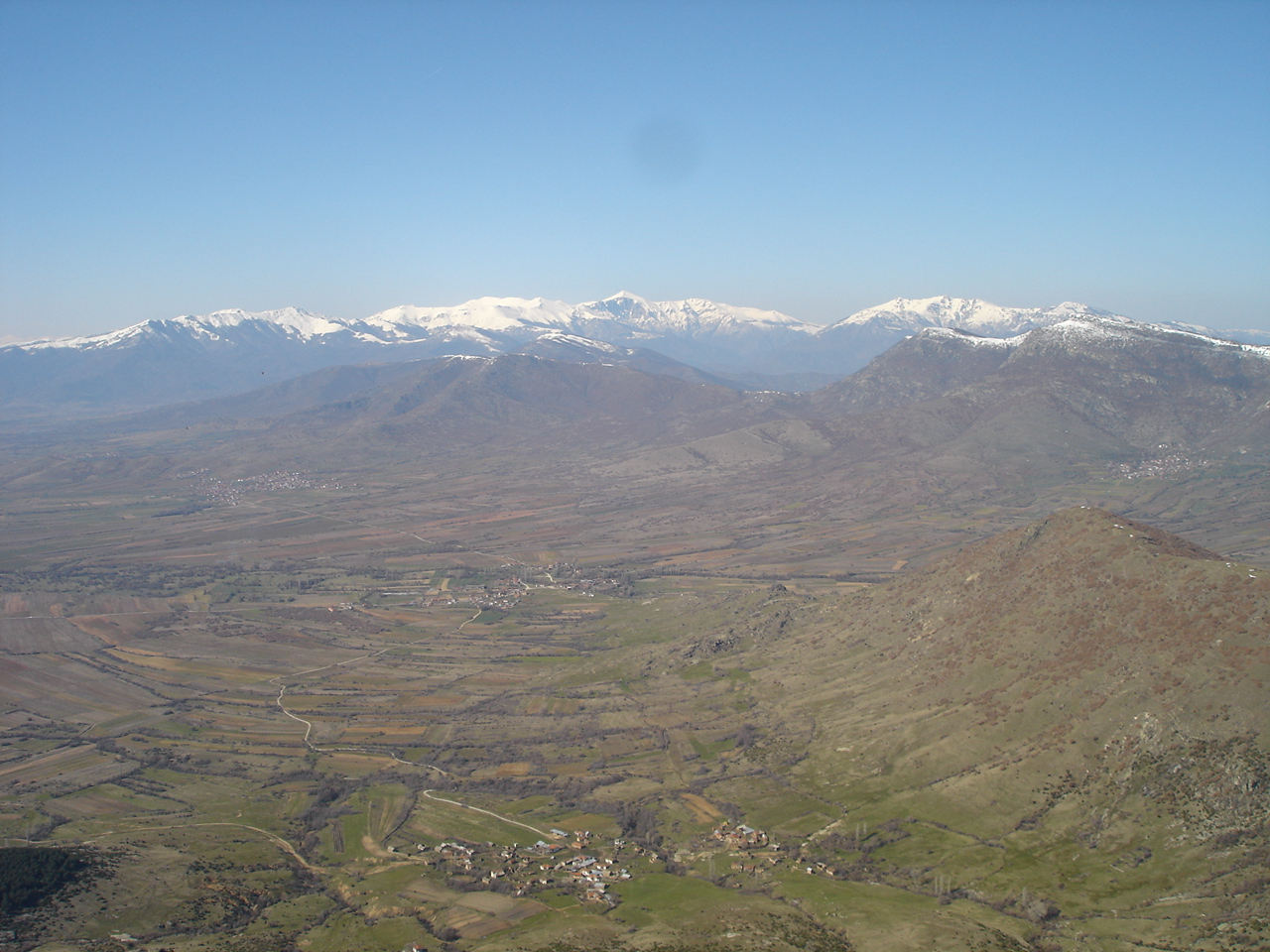 Mountains Mokra (Jakupica) and Babuna from Zlatovrv peak, Macedonia